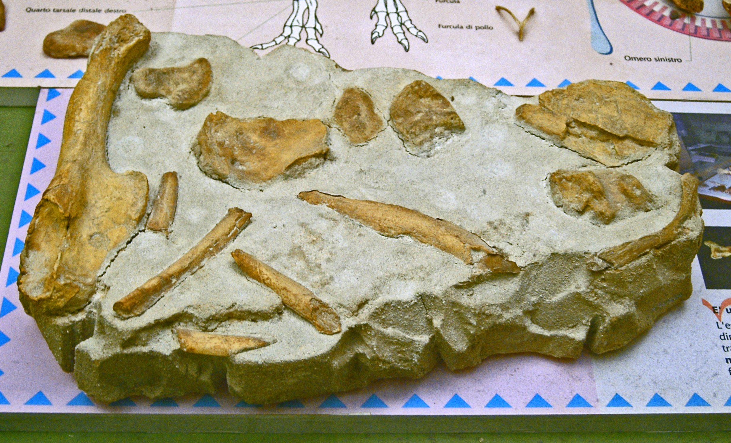 Limestone block containing fossil remains of the "Saltriosaurus", on display at the Museo Civico di Storia Naturale di Milano